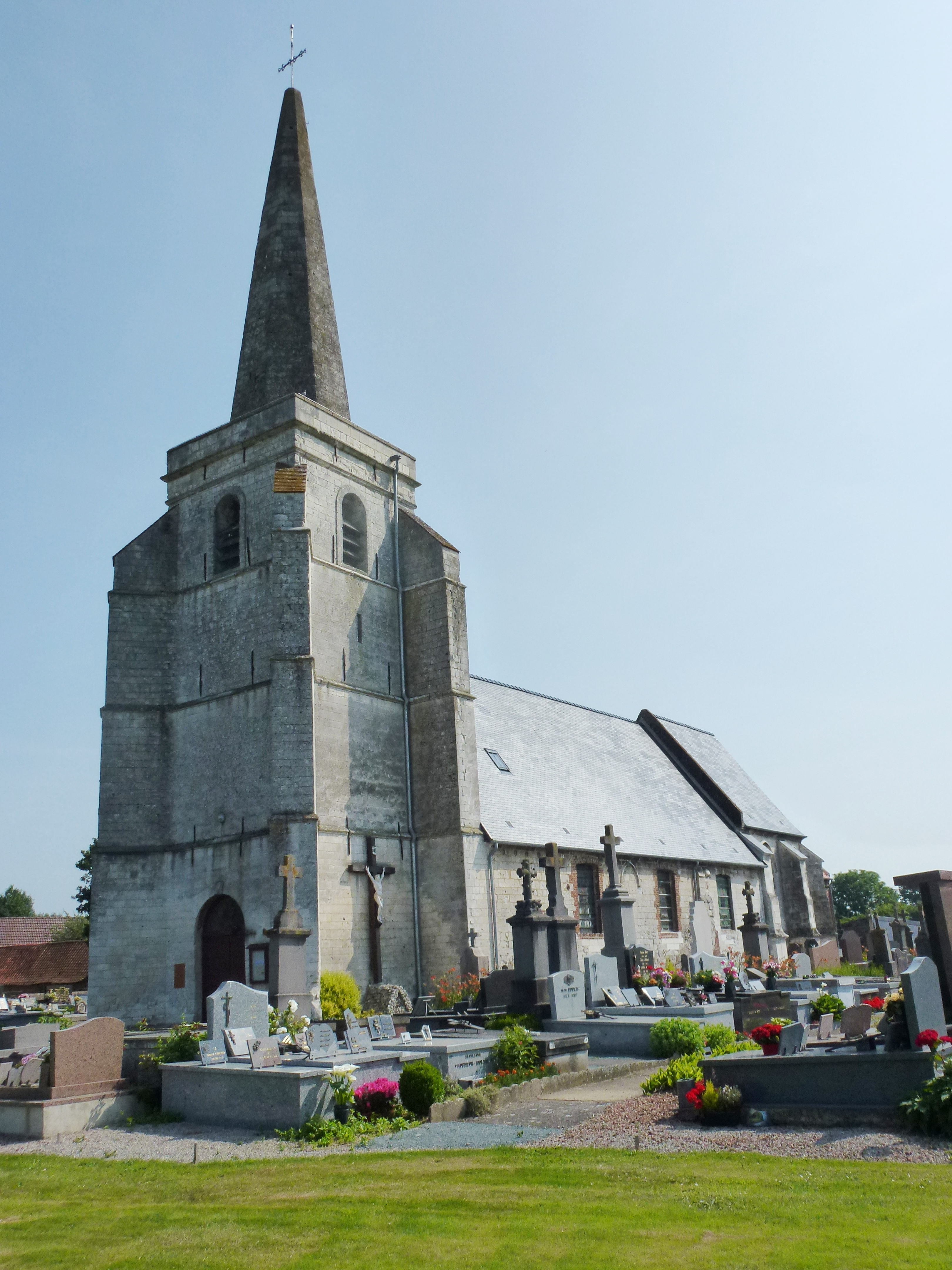 Rebecques (Pas-de-Calais, Fr) église Saint-Mâclou